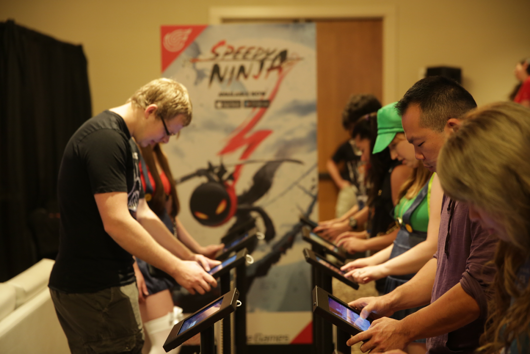 Gamers trying Netease' Speedy Ninja at Penny Arcade Expo in 2015